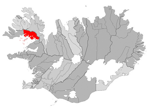 Based on Municipalities of Iceland.png.